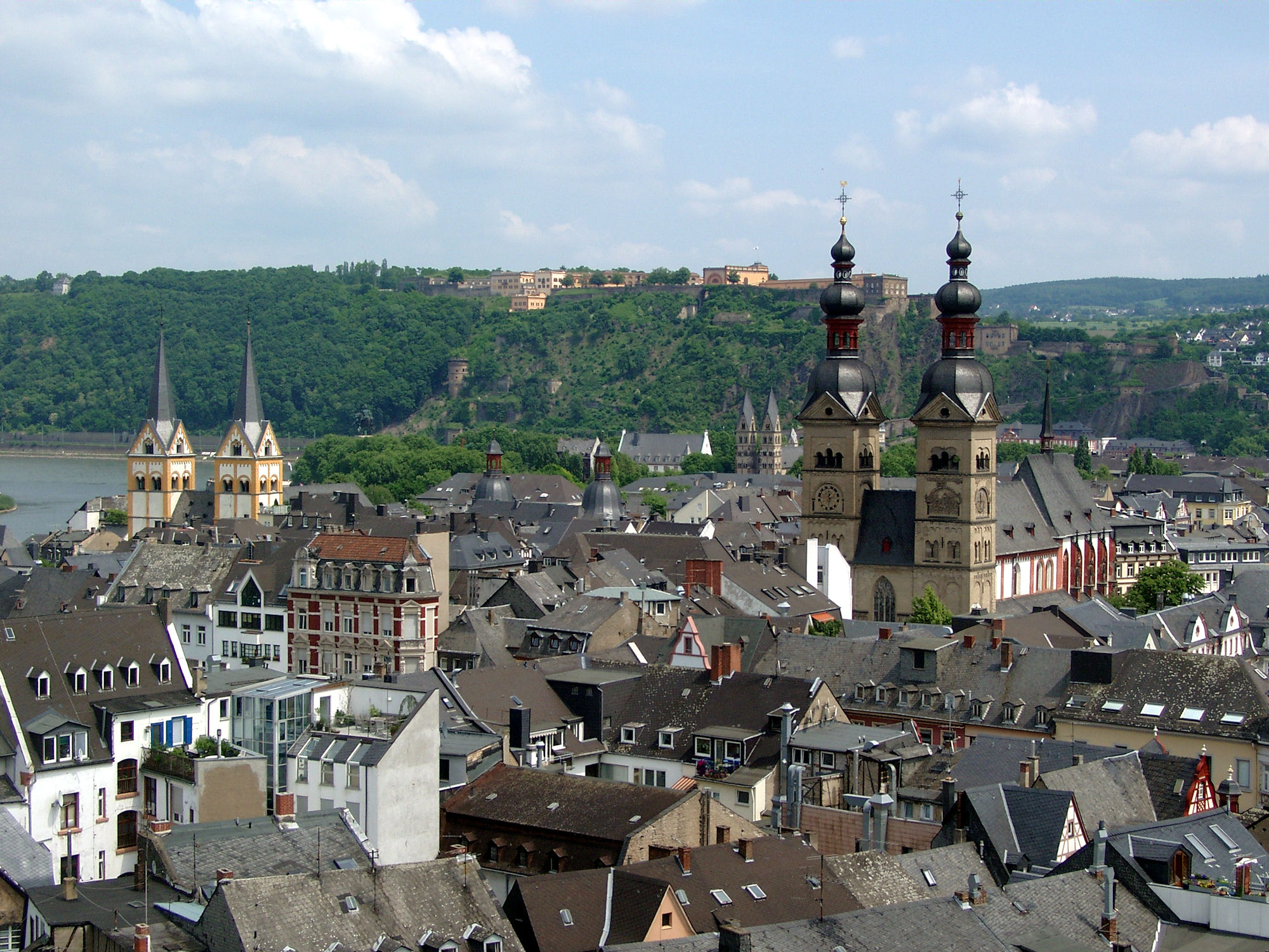 Old town of Koblenz, left Florinskirche, right Liebfrauenkirche, in the background Kastorkirche and Festung Ehrenbreitstein